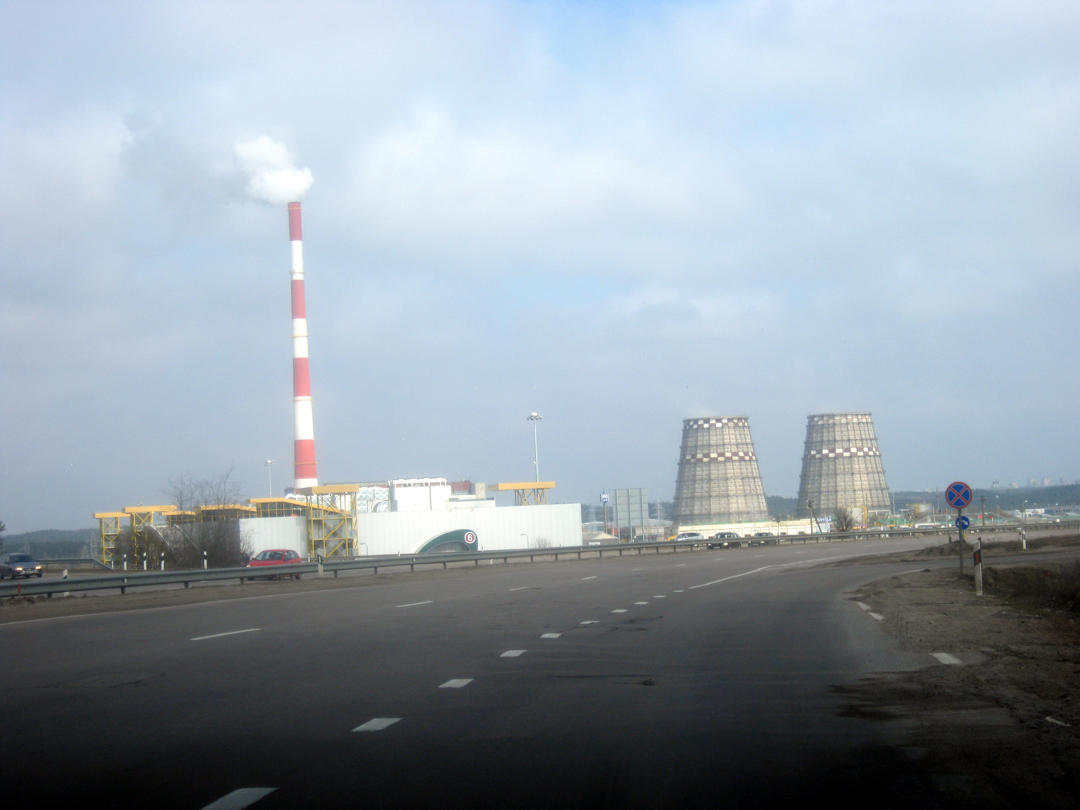 Vilnius